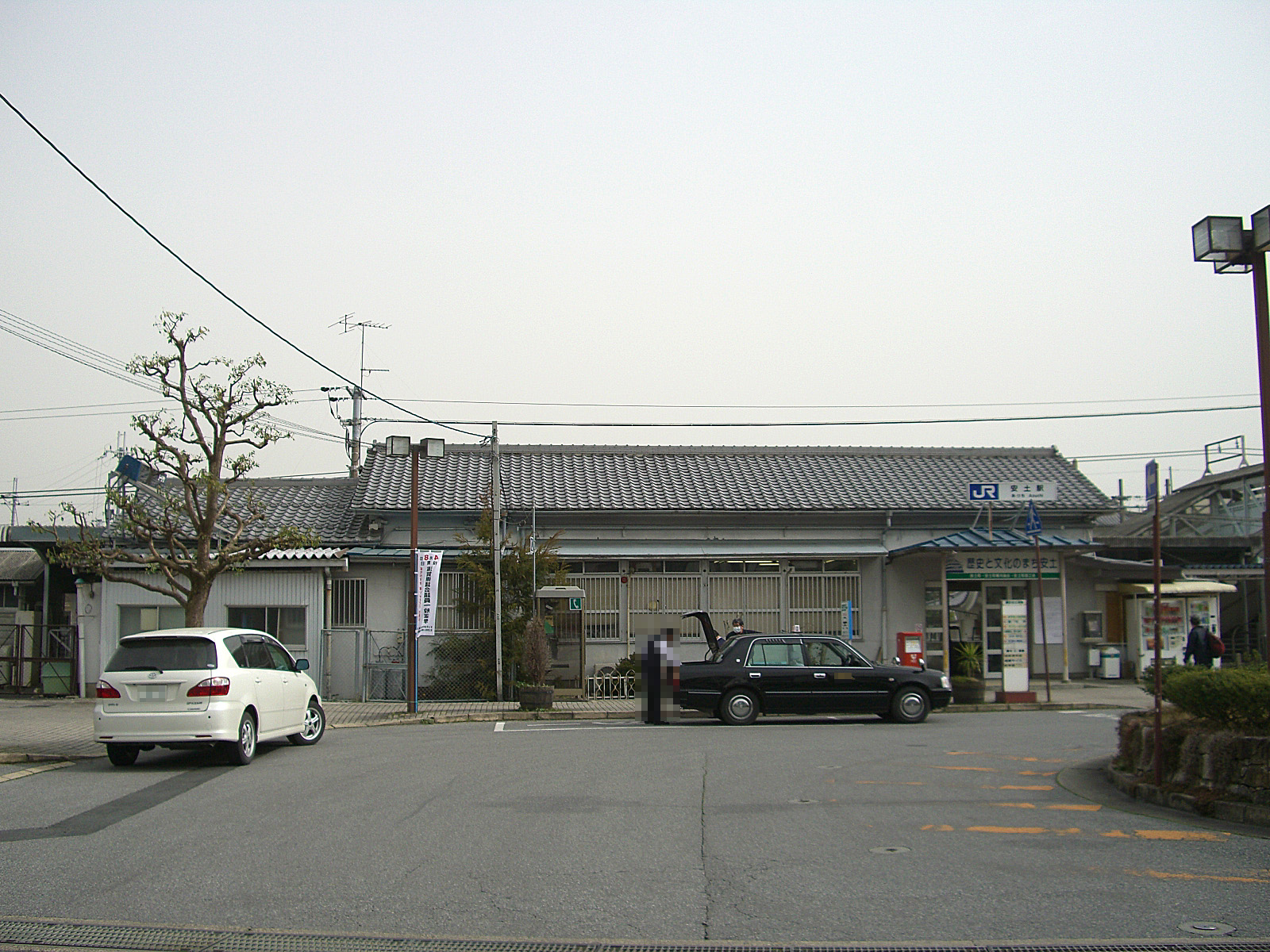 West Japan Railway Tōkaidō Main Line（Biwako Line） Azuchi Station Building 西日本旅客鉄道 東海道本線（琵琶湖線） 安土駅 駅建物